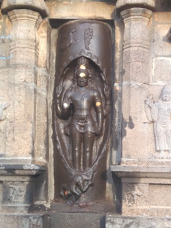 Kamarasavalli karkkodesvarar temple, Ariyalur district, Tamil Nadu, India